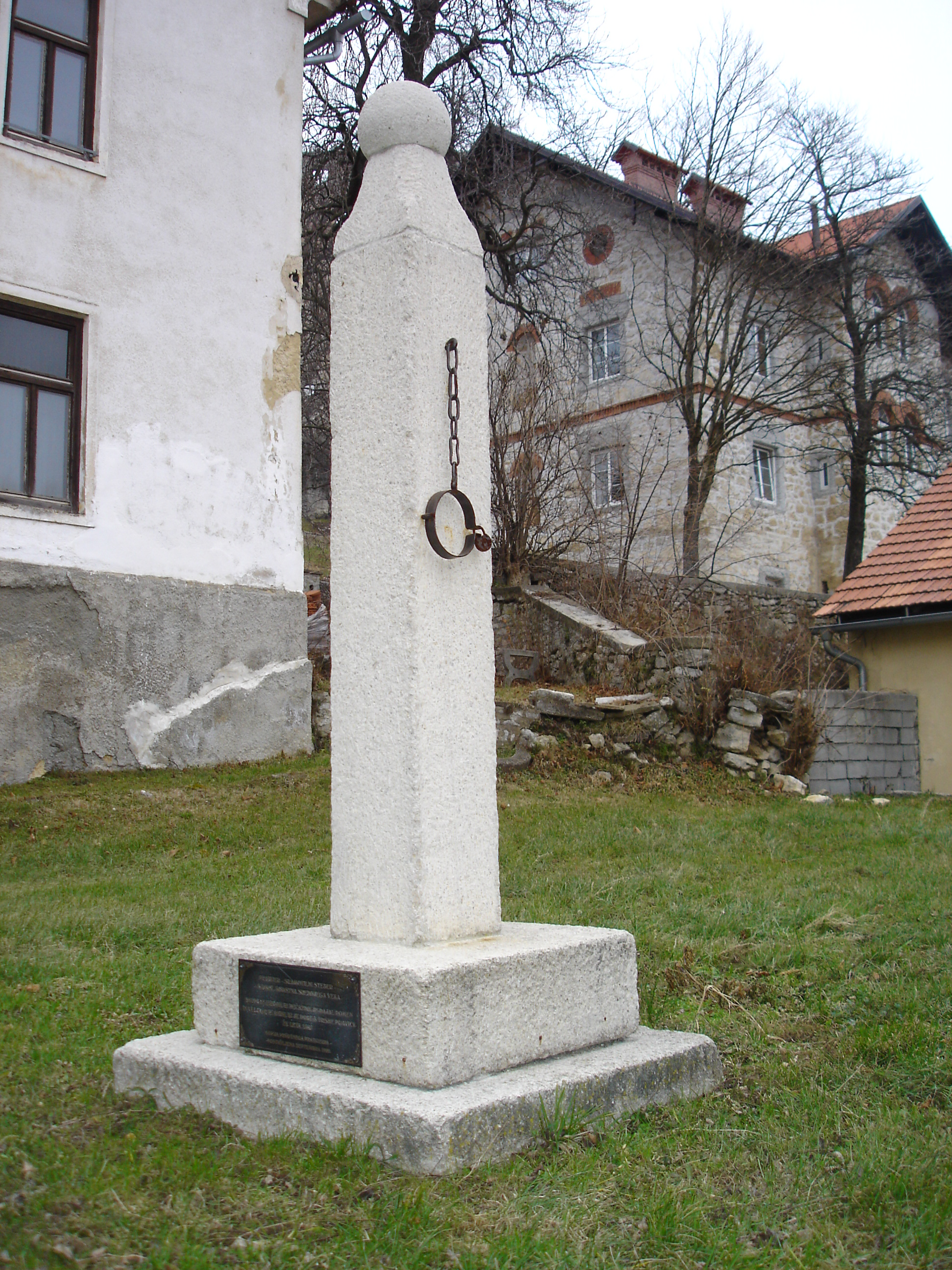 Pillory in Planina pri Sevnici (Slovenia) Sramotilni steber v Planini pri Sevnici